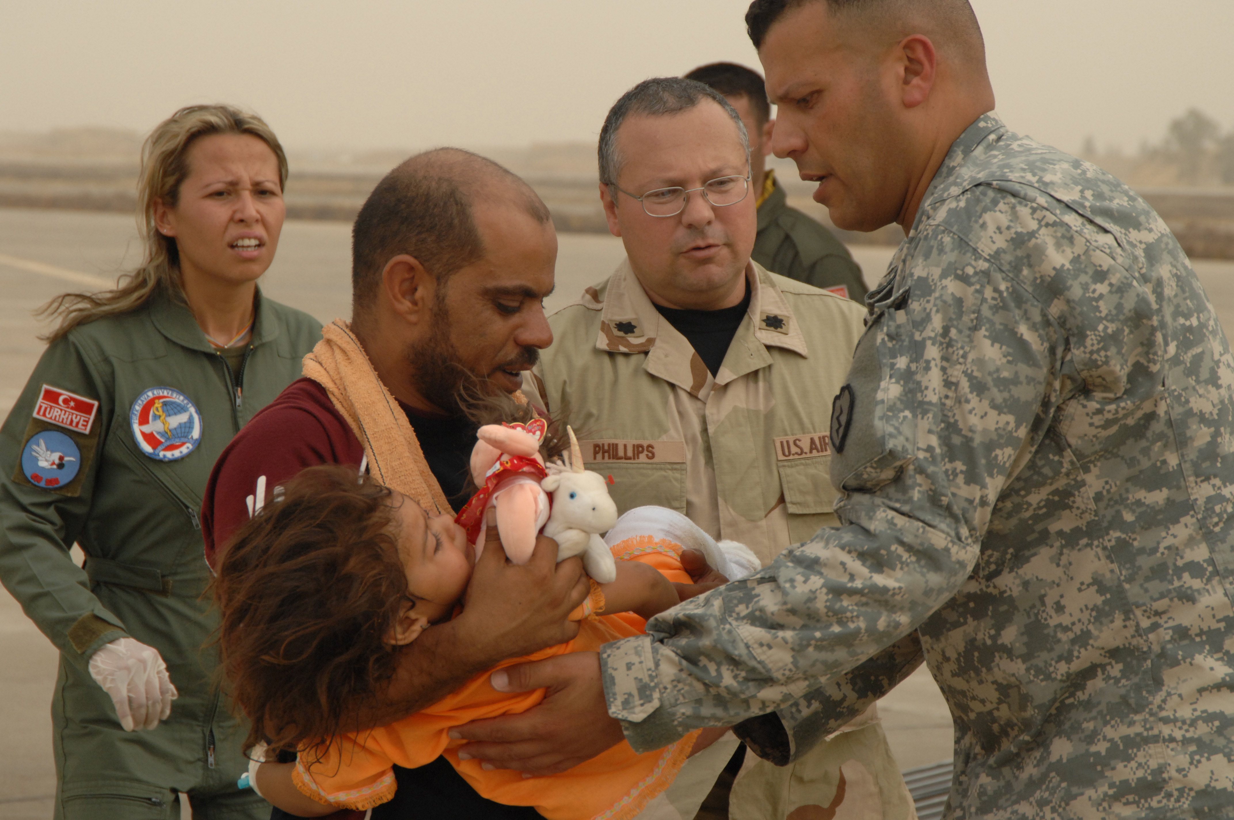 A U.S. Air Force Airman from 506th Air Expeditionary Group, a U.S. Army Soldier and a Turkish air force member transport an Iraqi child to safety during a multinational humanitarian airlift effort on Kirkuk Regional Air Base, Iraq, July 8, 2007. The victim was hurt in an attack in Tuz Khurmato, Iraq. Airmen from the 506th Air Expeditionary Group and Turkish army and air force members worked together to receive, transfer and medevac almost 30 injured Turkmen civilians and family members to the Turkish capital city of Ankara for further treatment. (U.S. Air Force photo by Senior Airman Kristin Ruleau) (Released)